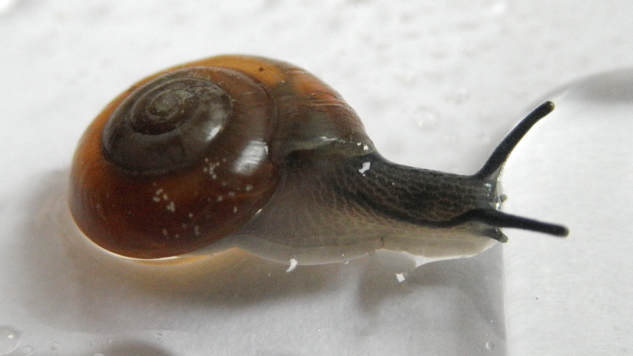 Photo of right side view of Aegopinella nitidula.